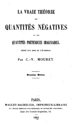 Front page of second edition of La vrair Théorie des quantités negatives ... (1861) by CV Mourey (1791?-1830?)